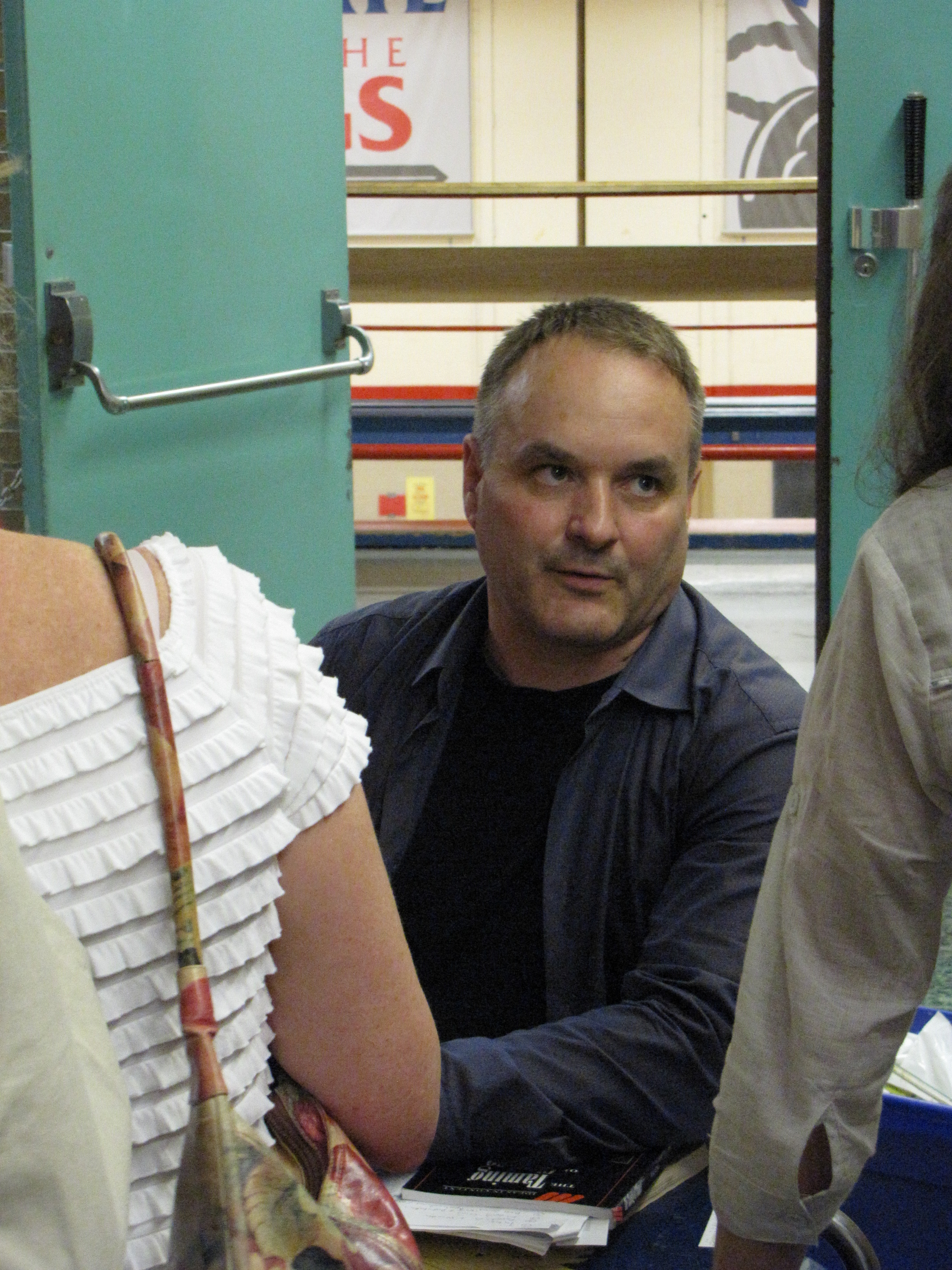 Dr. John Mighton, doing a book signing after a lecture for the Perimeter Institute at the Waterloo Collegiate Institute